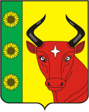 Krutoe (Krasnodar krai), coat of arms